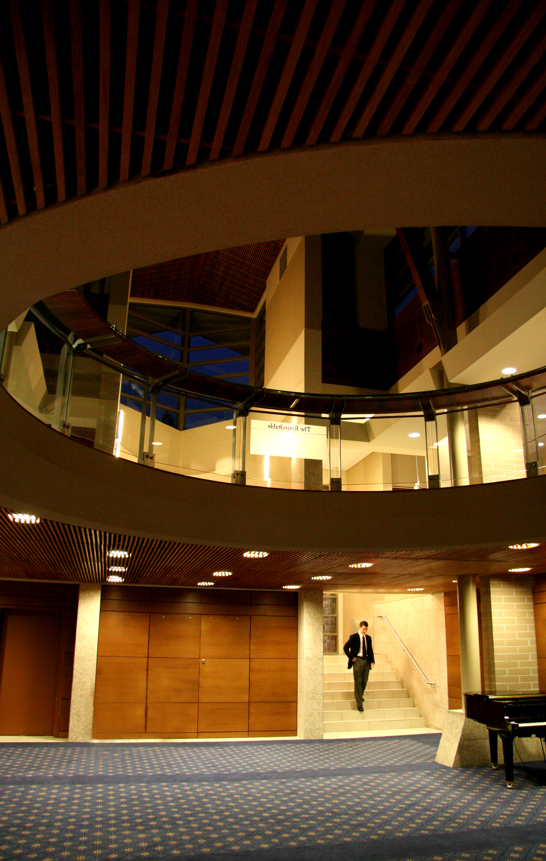 The Great Hall of St. George's School